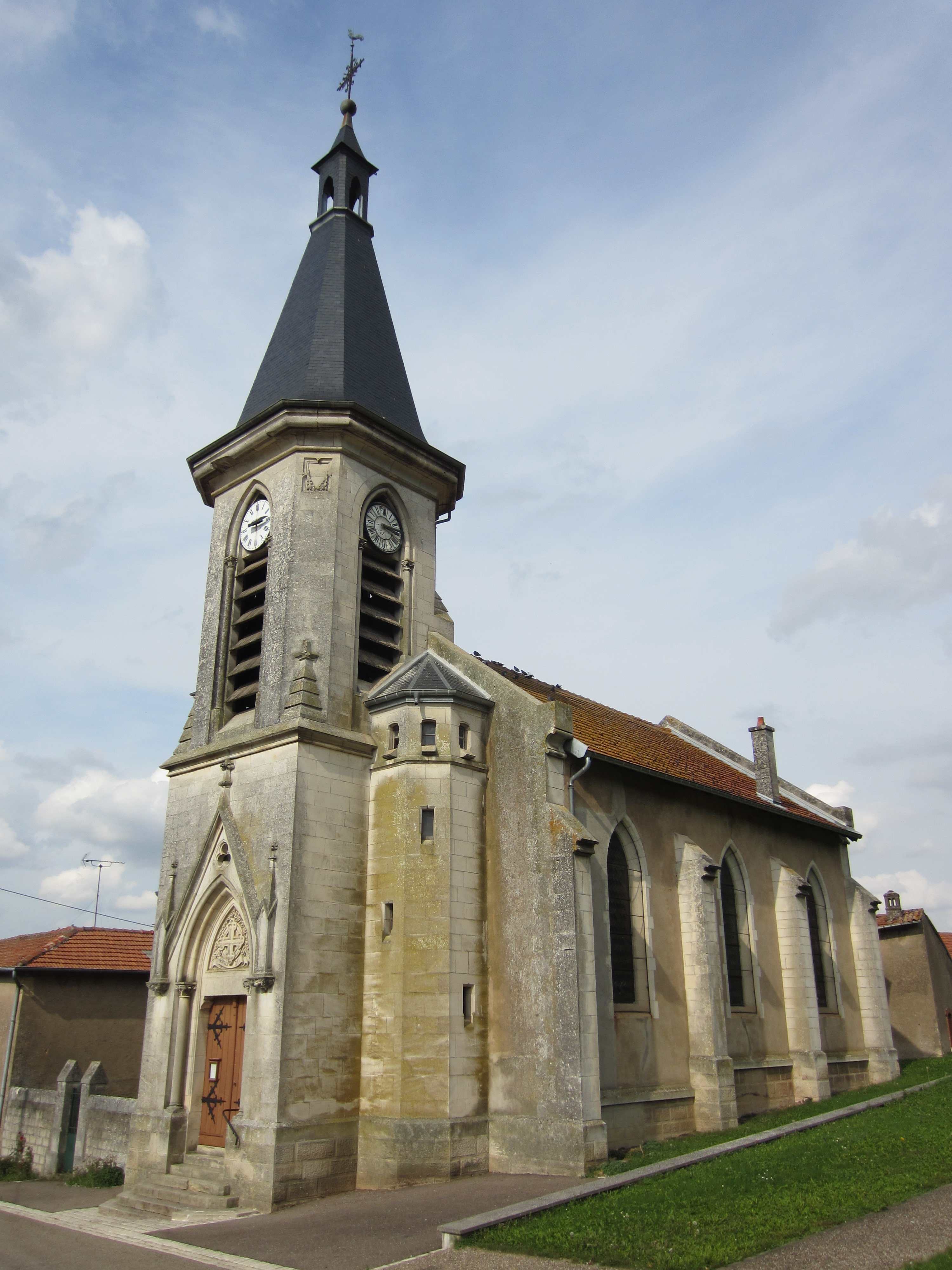 Description eglise Charey eglise Charey